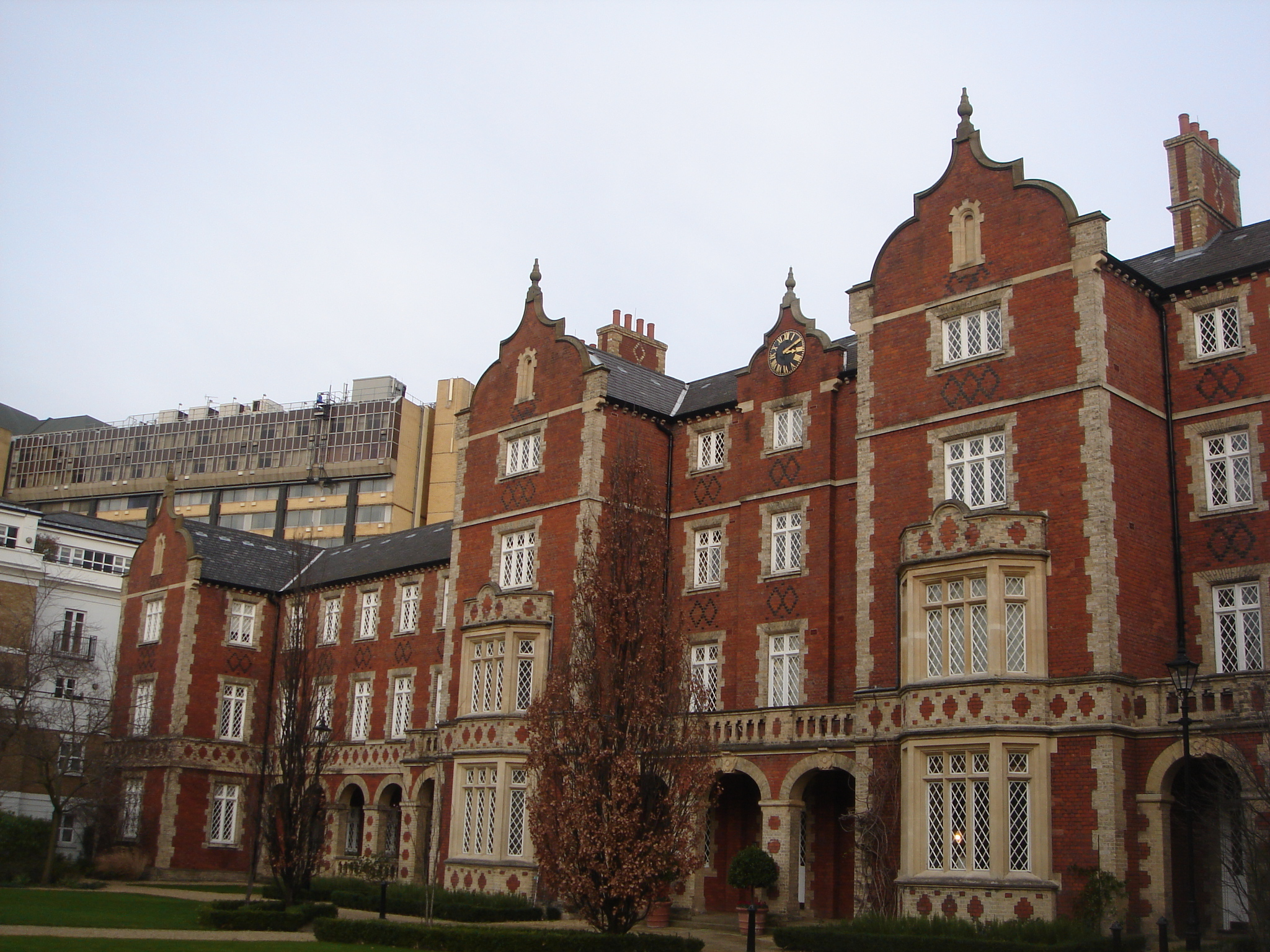 Former workhouse in Kensington, London